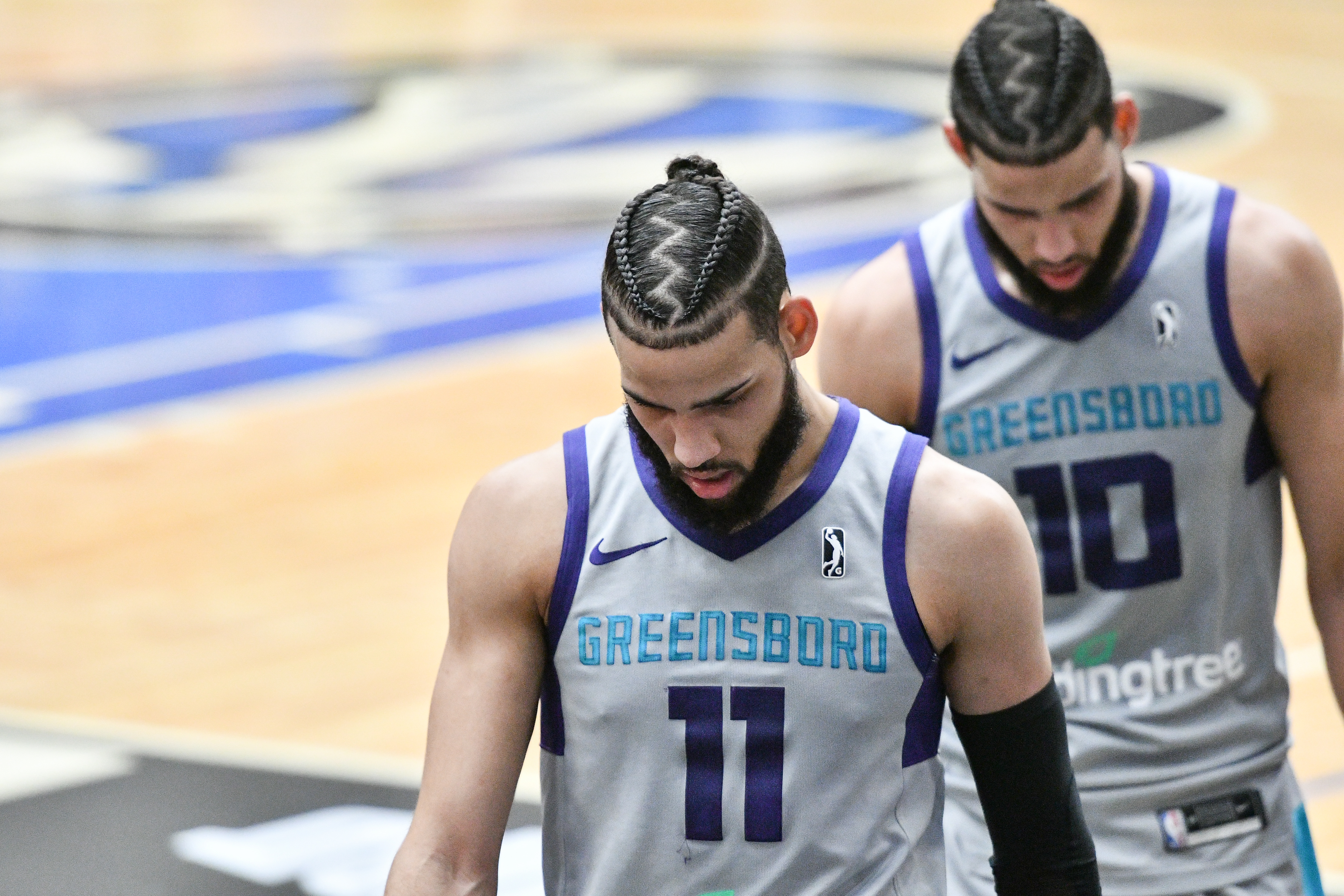 Cody Martin, Caleb Martin. Lakeland Magic vs Greensboro Swarm. RP Funding Center. Lakeland, Fla. Dec. 7, 2019. (Photo by Tom Hagerty.)